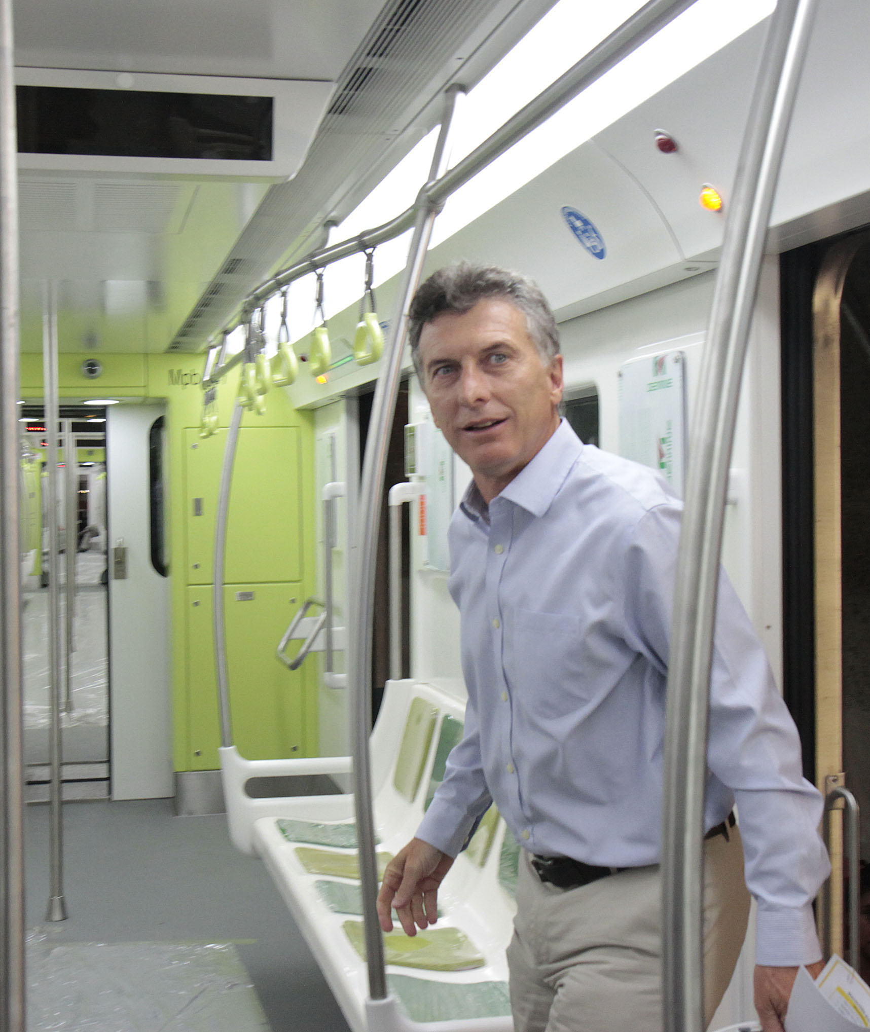 The Chief of Government of Buenos Aires, Mauricio Macri, while visiting the Underground/Línea A workshops at Floresta neighborhood.